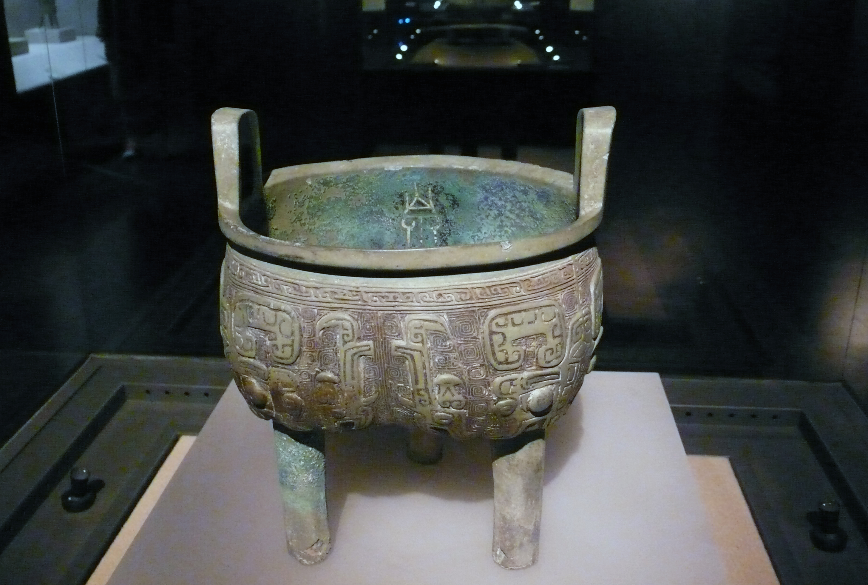 "Xi" Ding. A ding (tripod) from Shang Dynasty, on which is a character of "Xi" (息). Collected by National Museum of Chinese Writing.